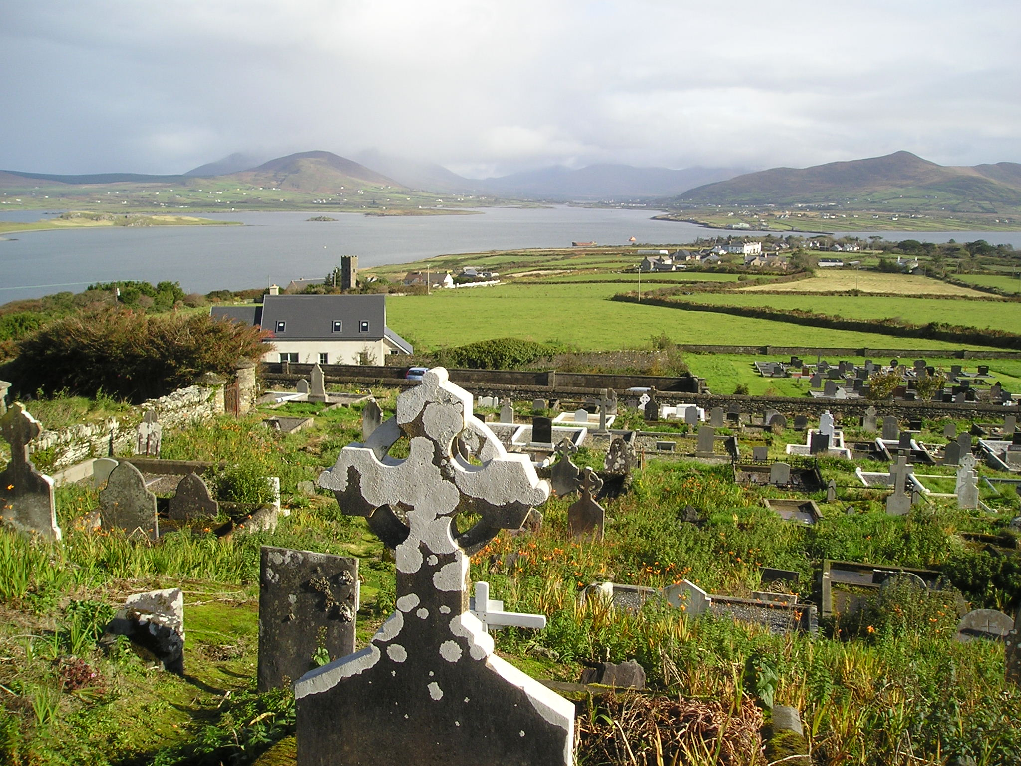 Valentia Island, Looking North